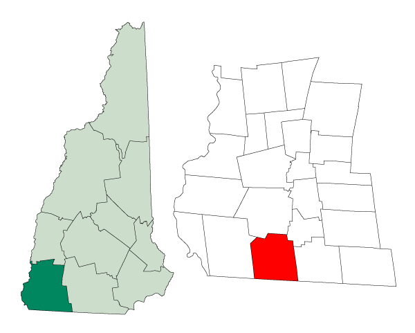 Map of a municipality in Cheshire County, New Hampshire